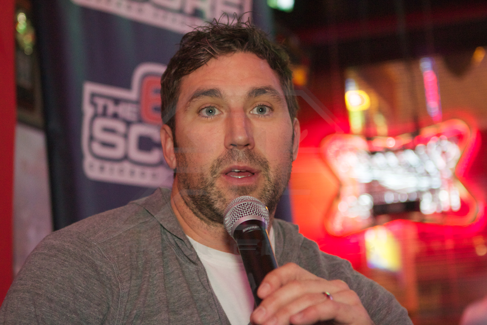 March 7th, 2012: Chicago Blackhawks' Right Wing, Andrew Brunette was on hand to sign autographs and take photos at The Neutral Zone in Westmont, Illinois for Bud Light's Hockey Night.